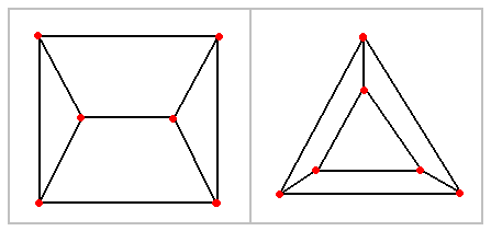 Triangular_prism vertex/edge graphs